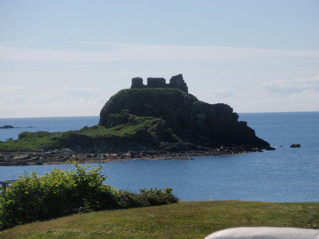 Another view of Dunyvaig Castle Snapped on a visit to Lagavulin Distillery.